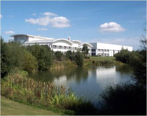 Clearblue Research Center